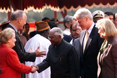 President Clinton and Ambassador Dick Celeste introduce President Narayanan to the US delegation. Arrival Ceremony, Rashtrapati Bhavan, New Delhi